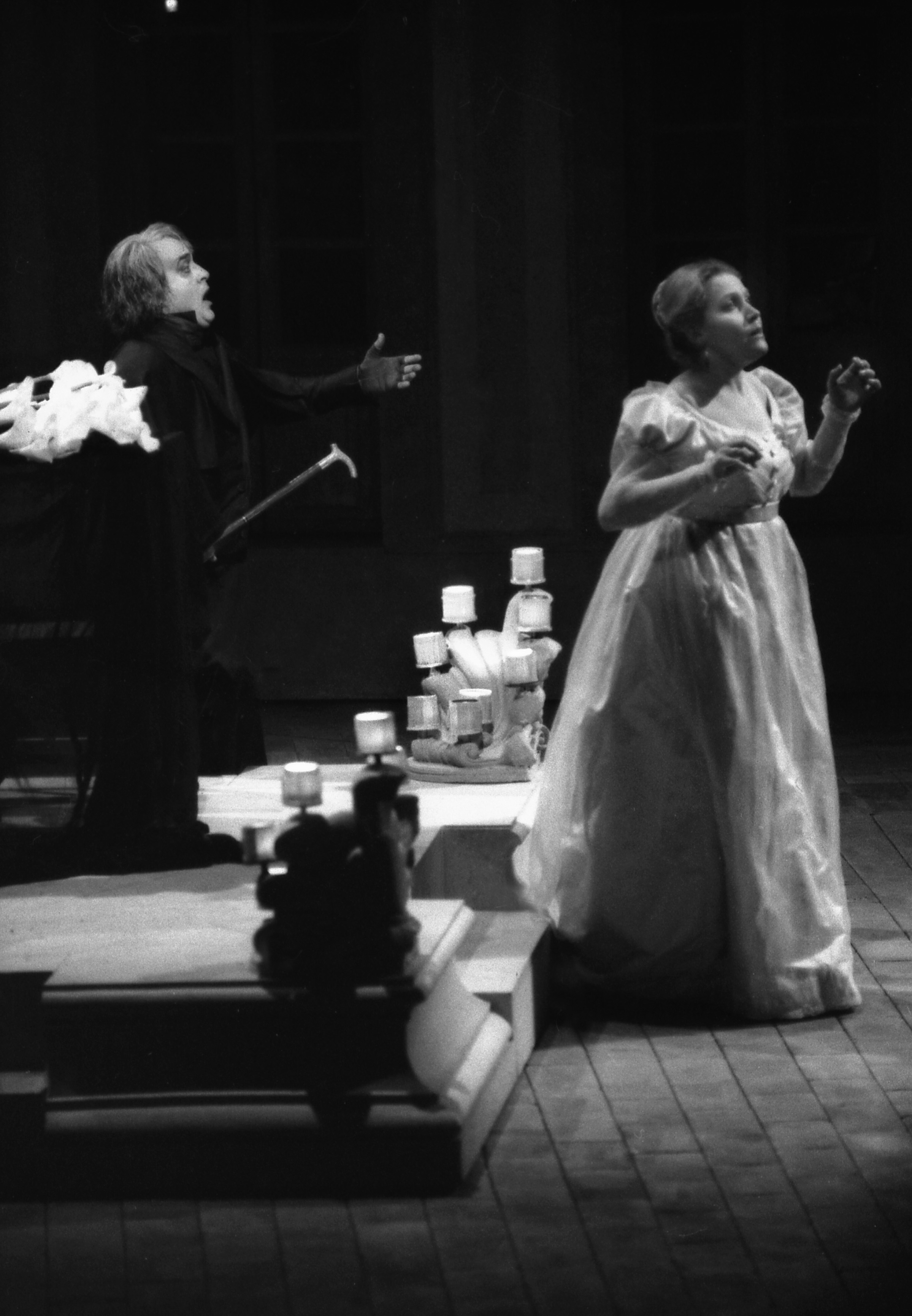 José Van Dam as Lindorf/Coppélius/Dapertutto/Miracle at La Monnaie in Brussels